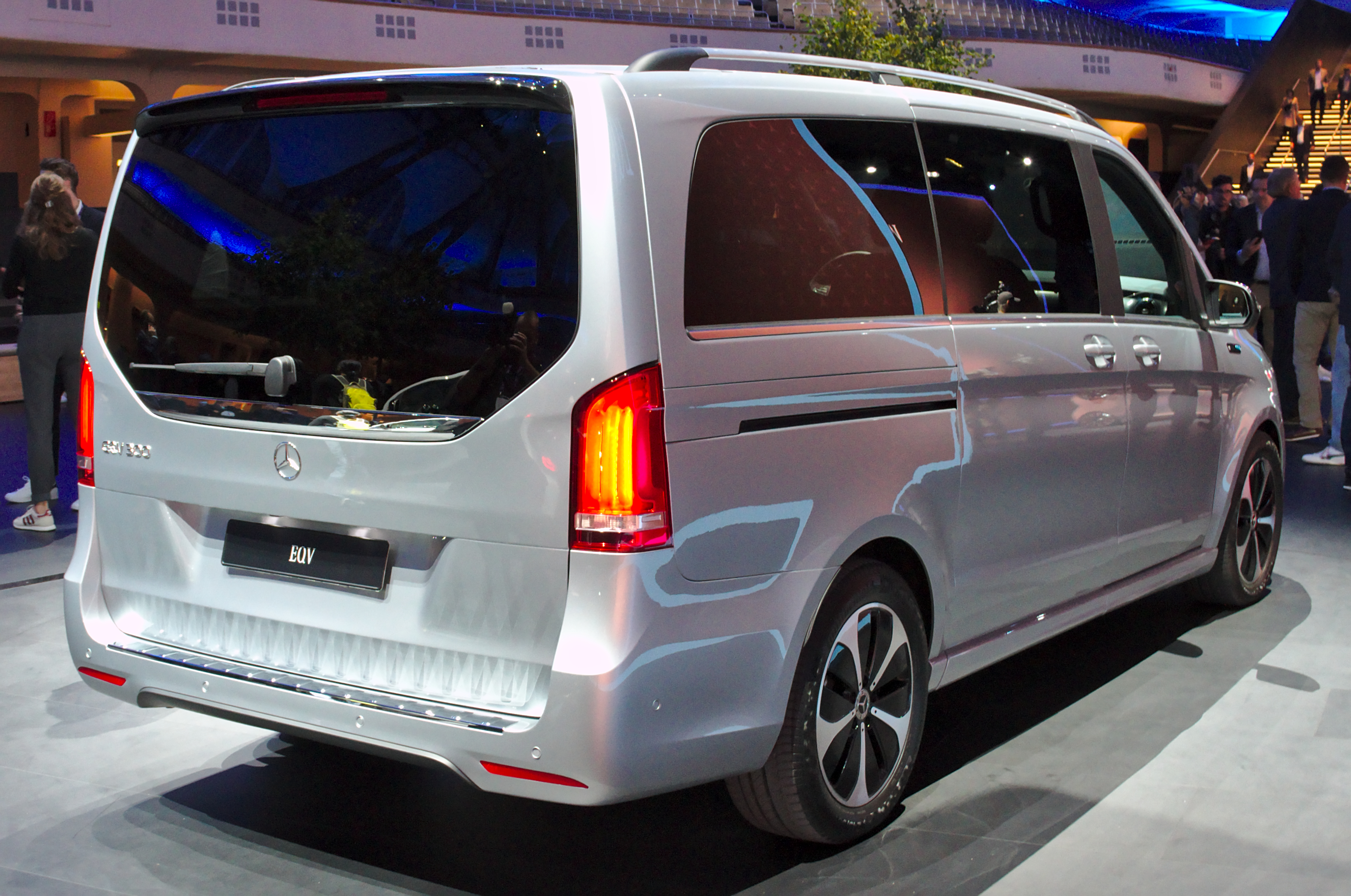 Mercedes-Benz_EQV at IAA 2019